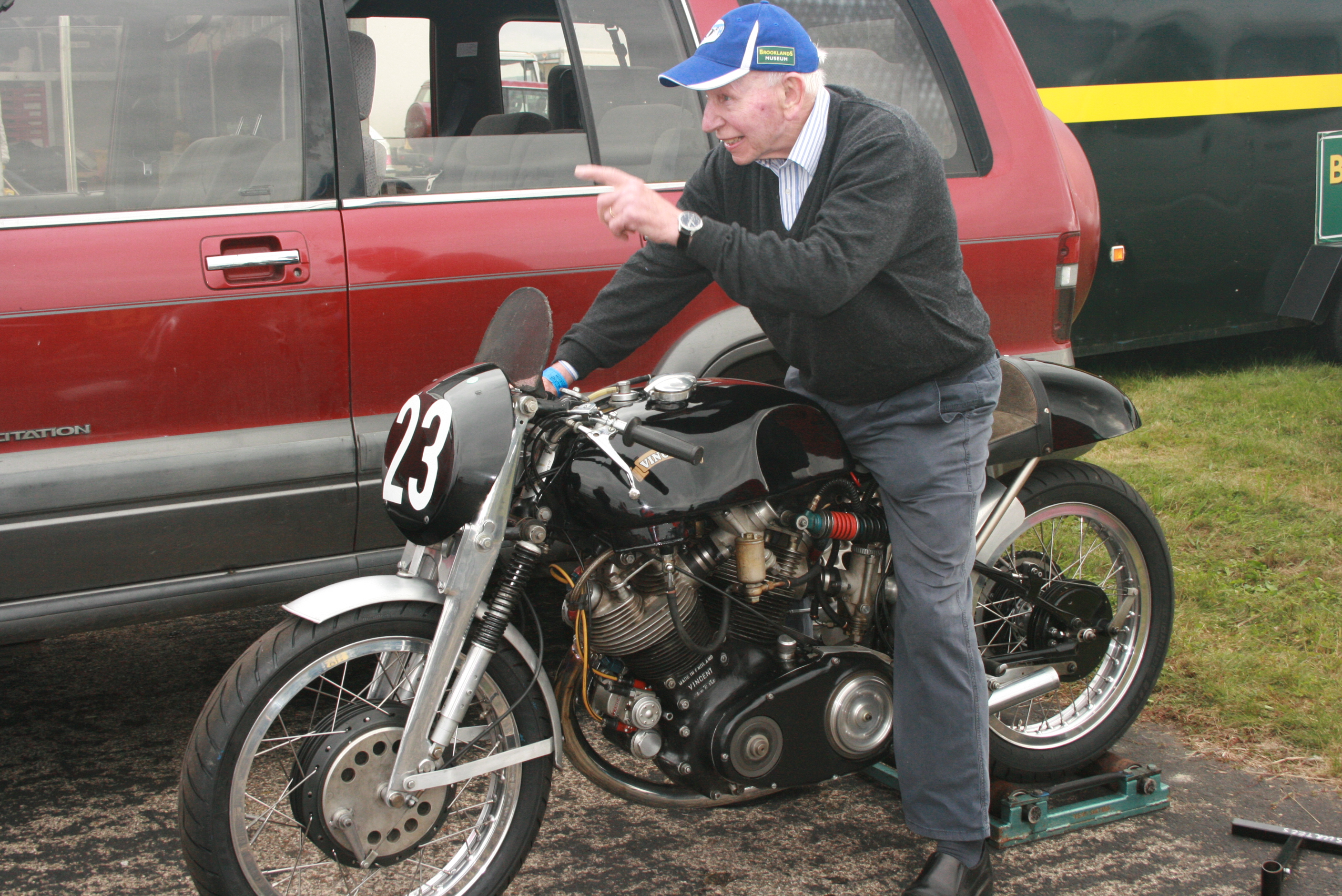 Former world champion John Surtees on Vincent motorcycle at Dunsfold Wings and Wheels 2012.